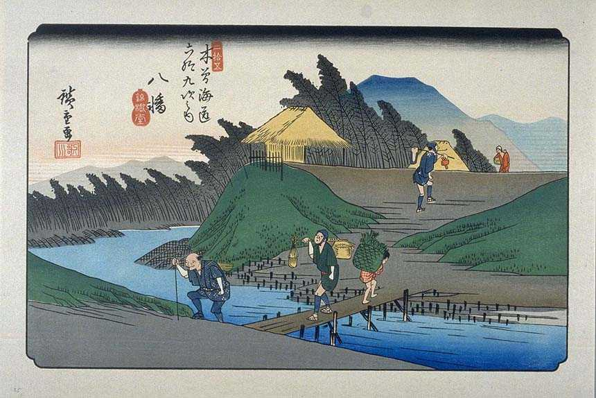 Yawata on the Kisokaido, ukiyo-e prints by Hiroshige